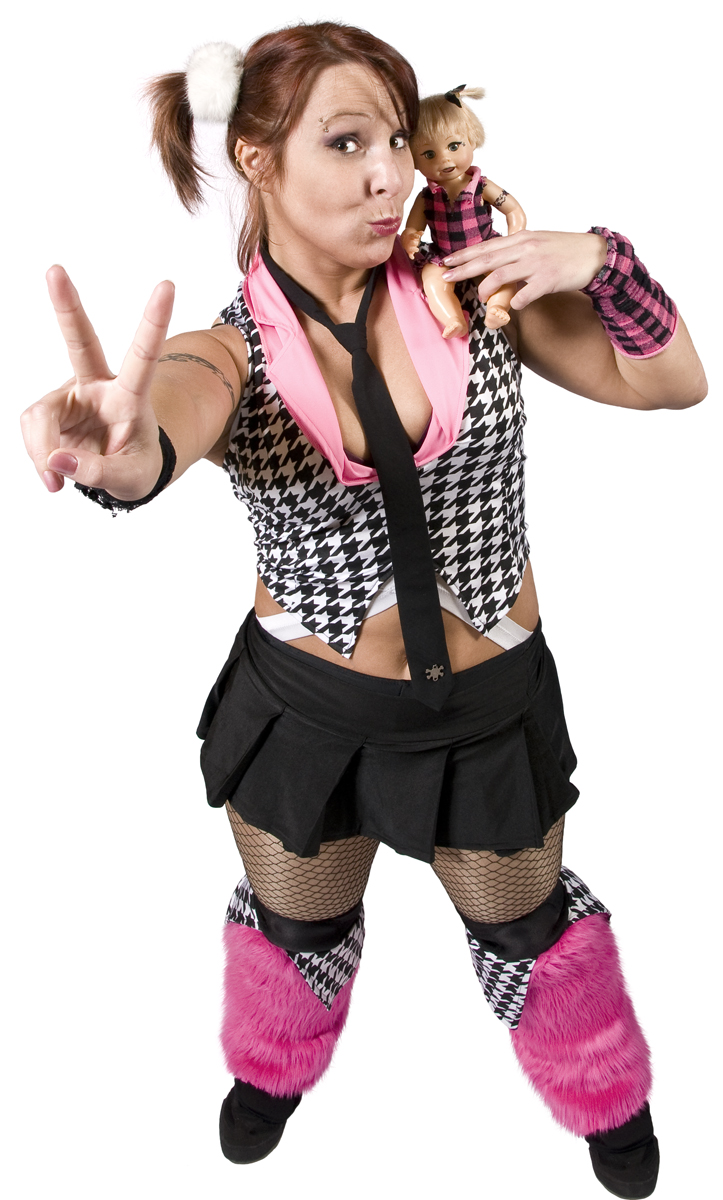 LuFisto - Super Hardcore Anime